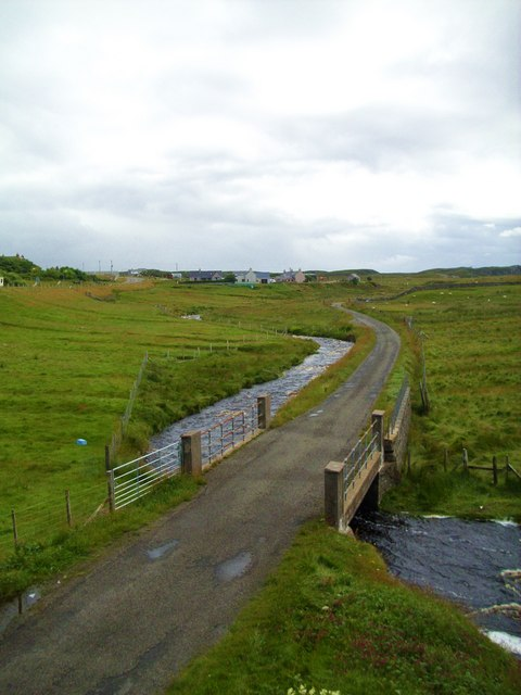 The Pentland Road at Carloway The view eastwards along the Pentland Road from Carloway bridge. This single track road runs right across Lewis from Carloway to Stornoway [with a branch to Breascleit] and is well graded throughout. The reason for its lack of steep gradients is due to the fact that it was originally laid out as the trackbed for a railway, planned and funded by Lord Leverhulme, who set out to improve the island economy by setting up commercial fishing fleets which would unload their catches at improved west coast ports, with the fish being transported by rail to processing plants in Stornoway. The fish products would have been retailed through the chain of Macfishery shops [anyone remember those?], but the scheme was abandoned.